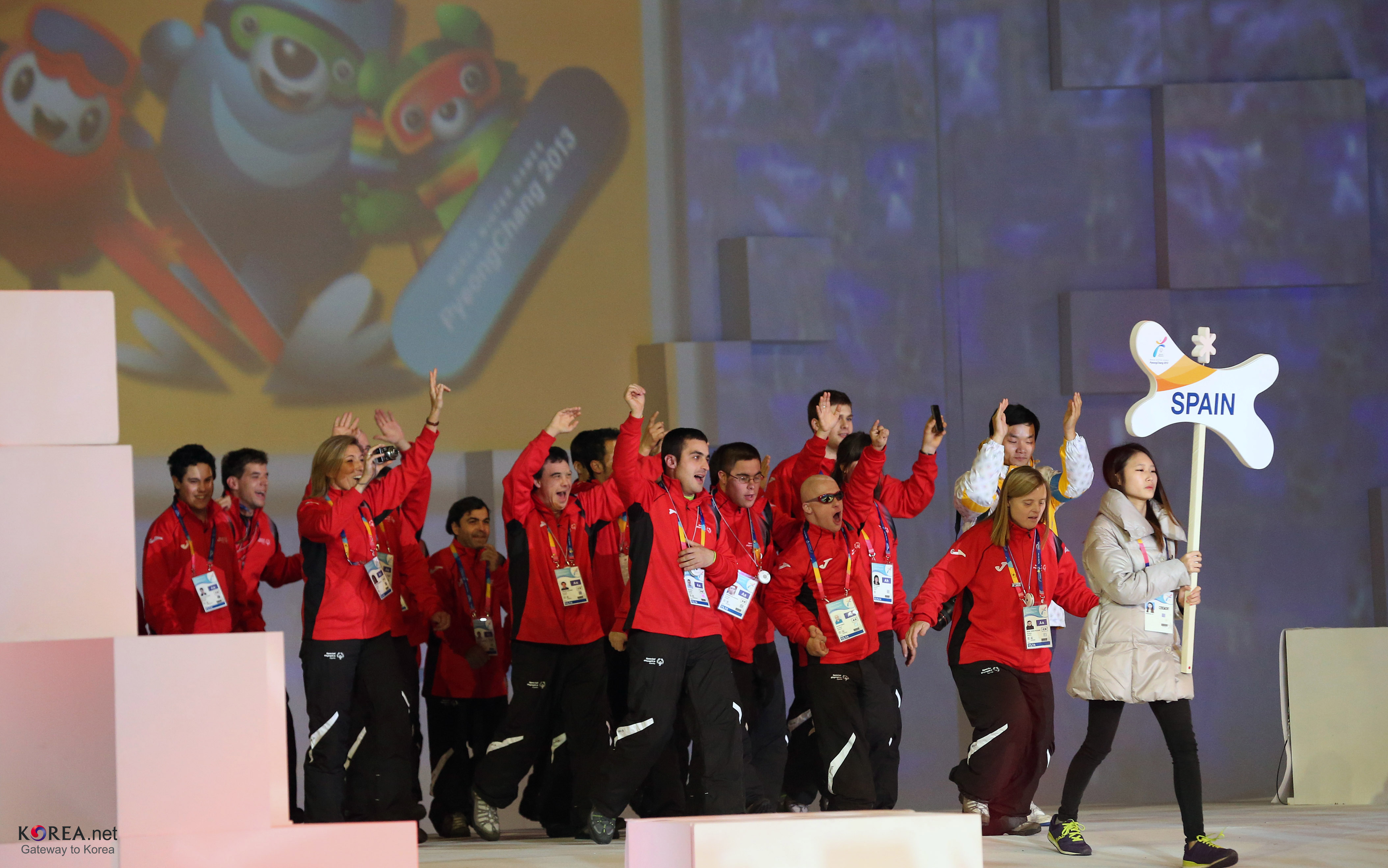 2013 PyeongChang The Special Olympics World Winter Games. Opening Ceremony